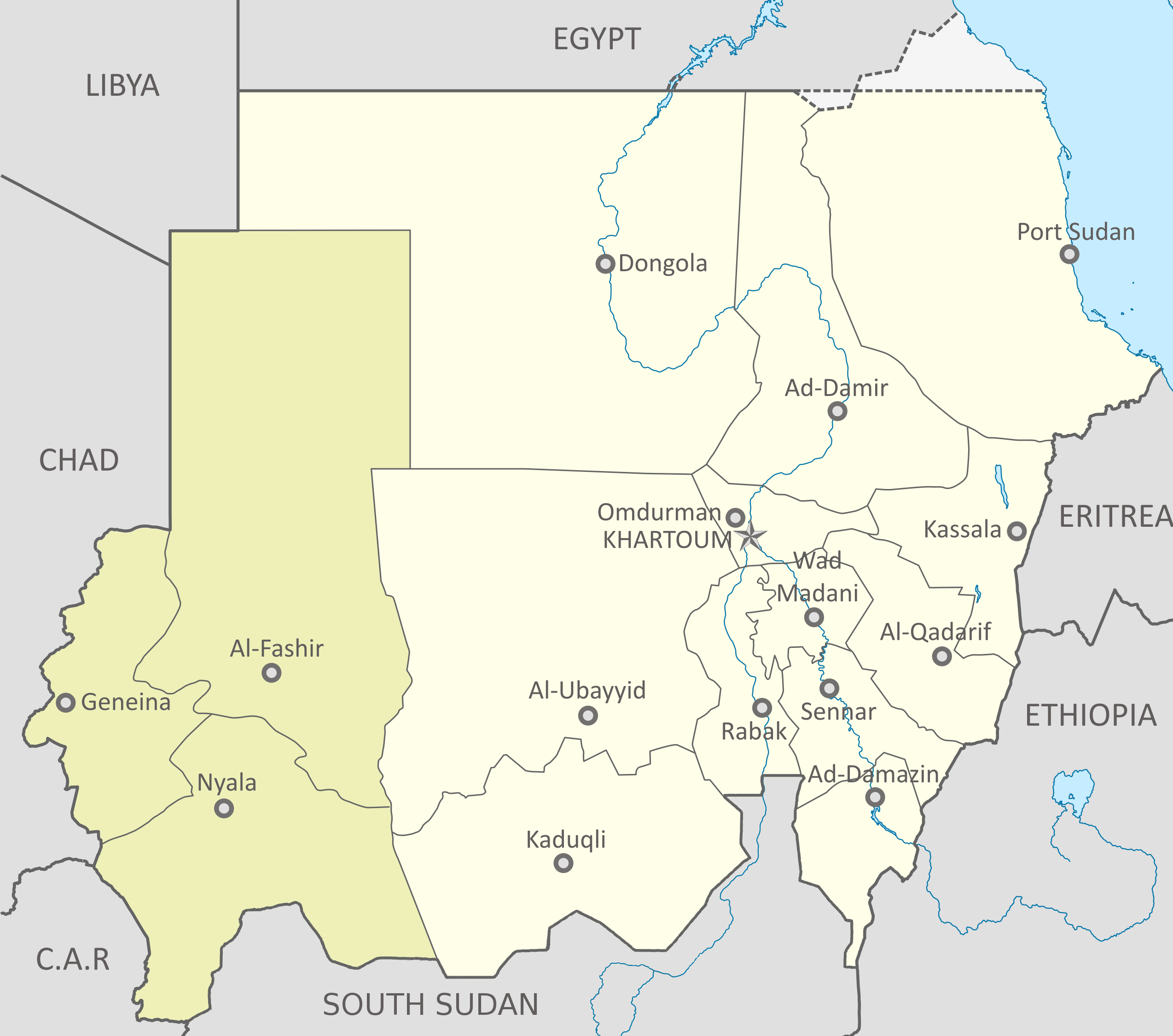 Map of Darfur within Sudan, July 2011.